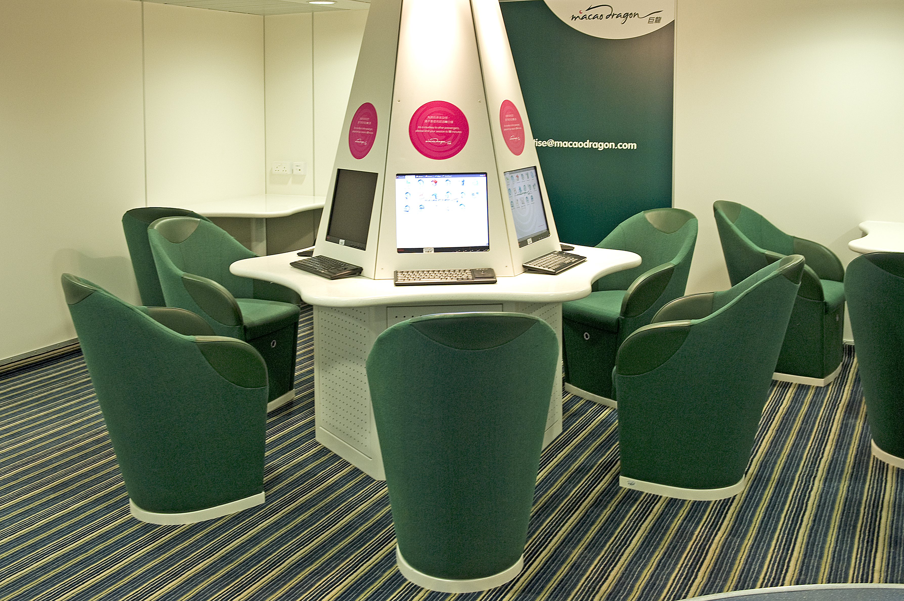 Internet Cafe aboard the Macao Dragon Company ferry Shen Long.